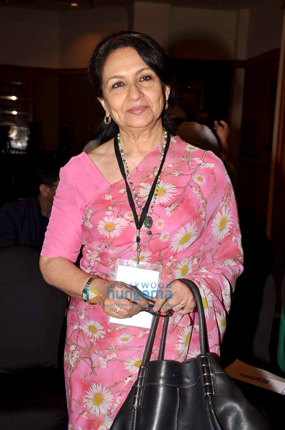 Sharmila Tagore at 'Screenwriters Lab 2013' announcement